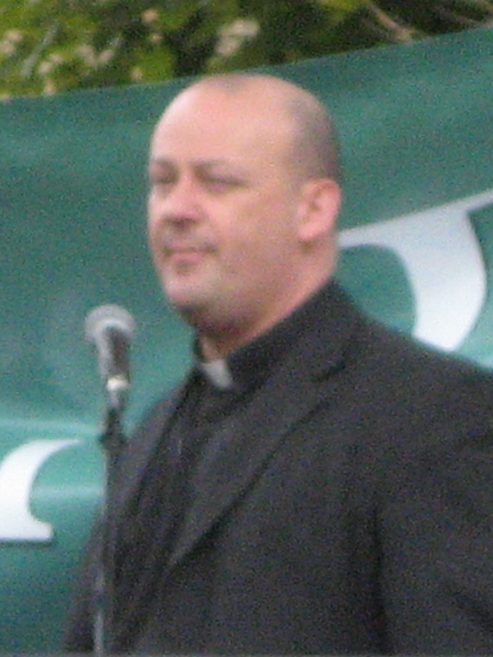 The Reverend Canon Giles Anthony Fraser